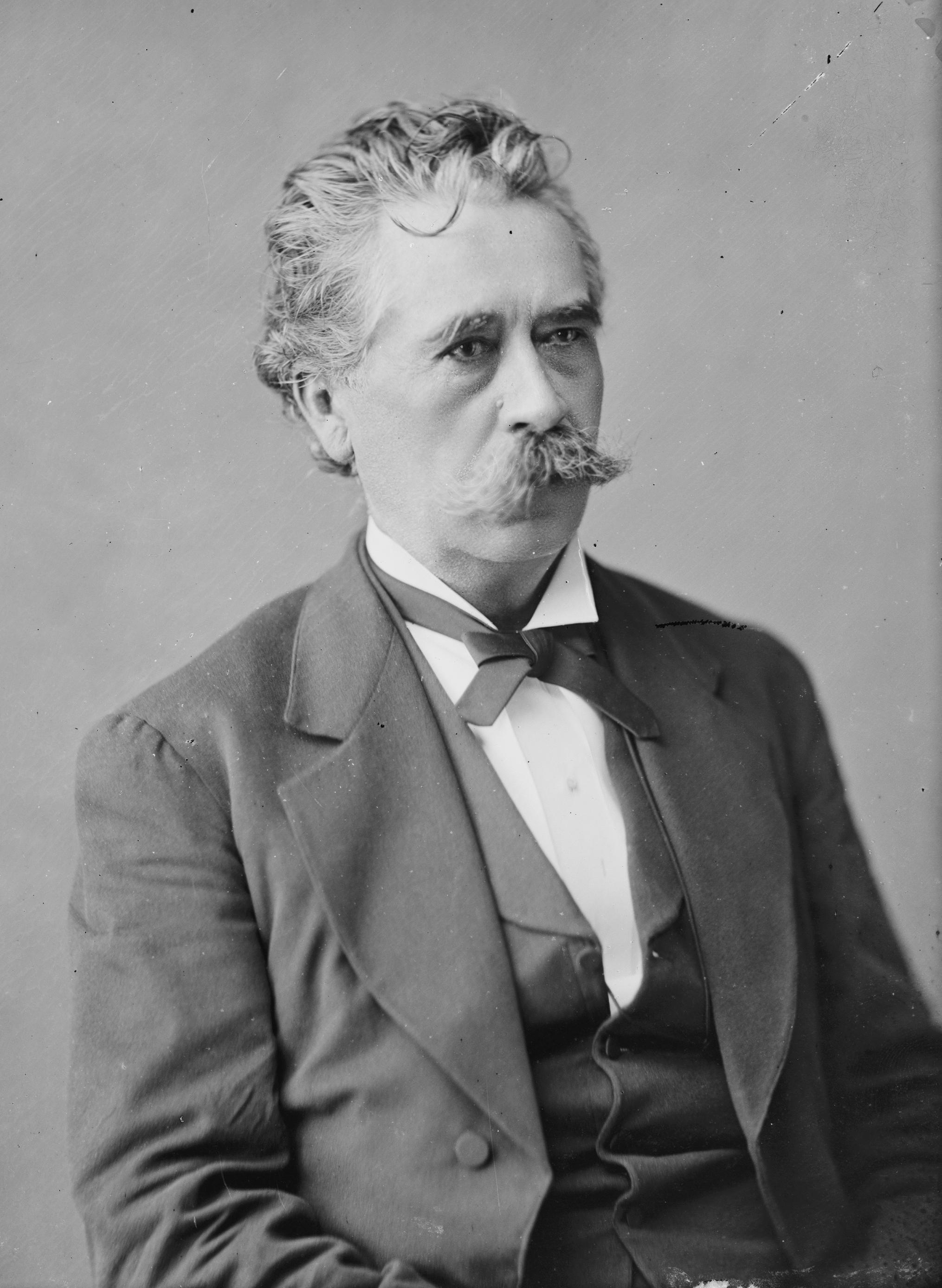 John Hancock (Texas politician). Library of Congress description: "Hancock, Hon. John of Texas"